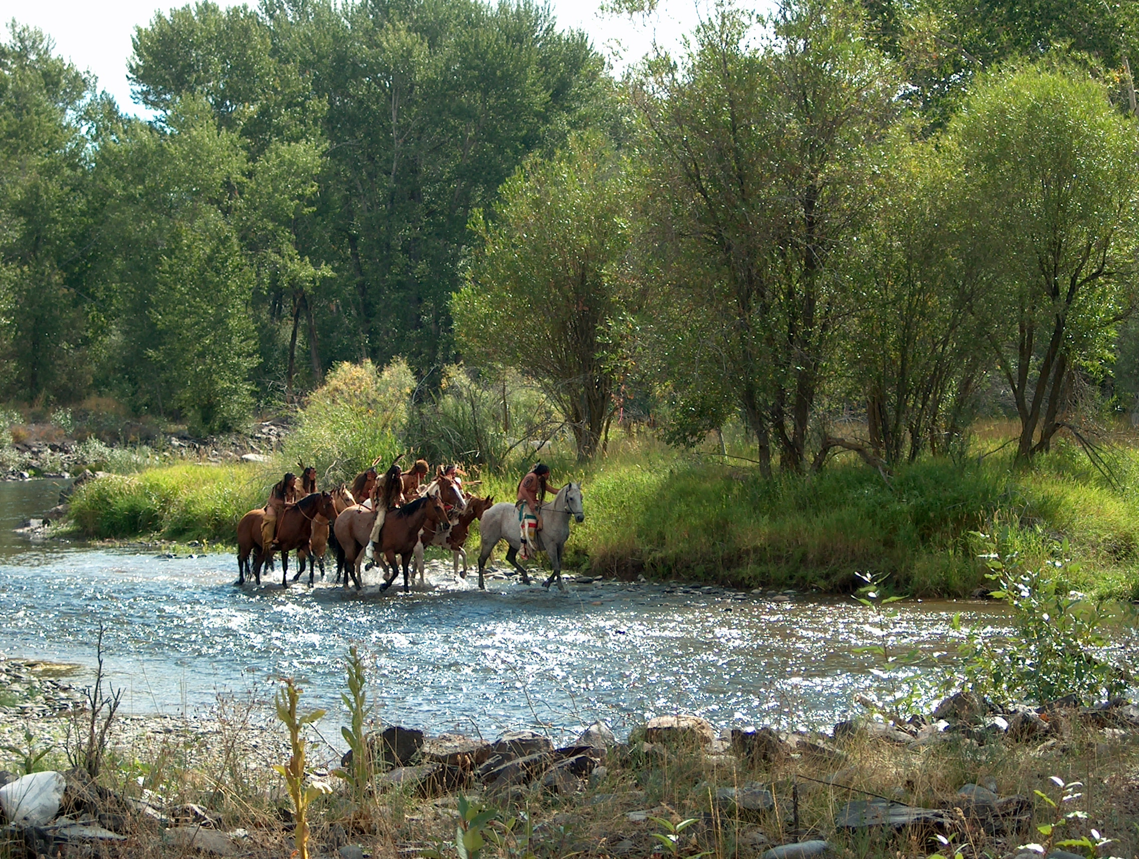 Reenactment on Lemhi River_Nez Perce National Historic Trail